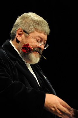 Géza Szőcs a is an ethnic Hungarian poet and politician from Transylvania, Romania, who served as Secretary of State for Culture of the Ministry of National Resources in Hungary from 2 June 2010 to 13 June 2012.